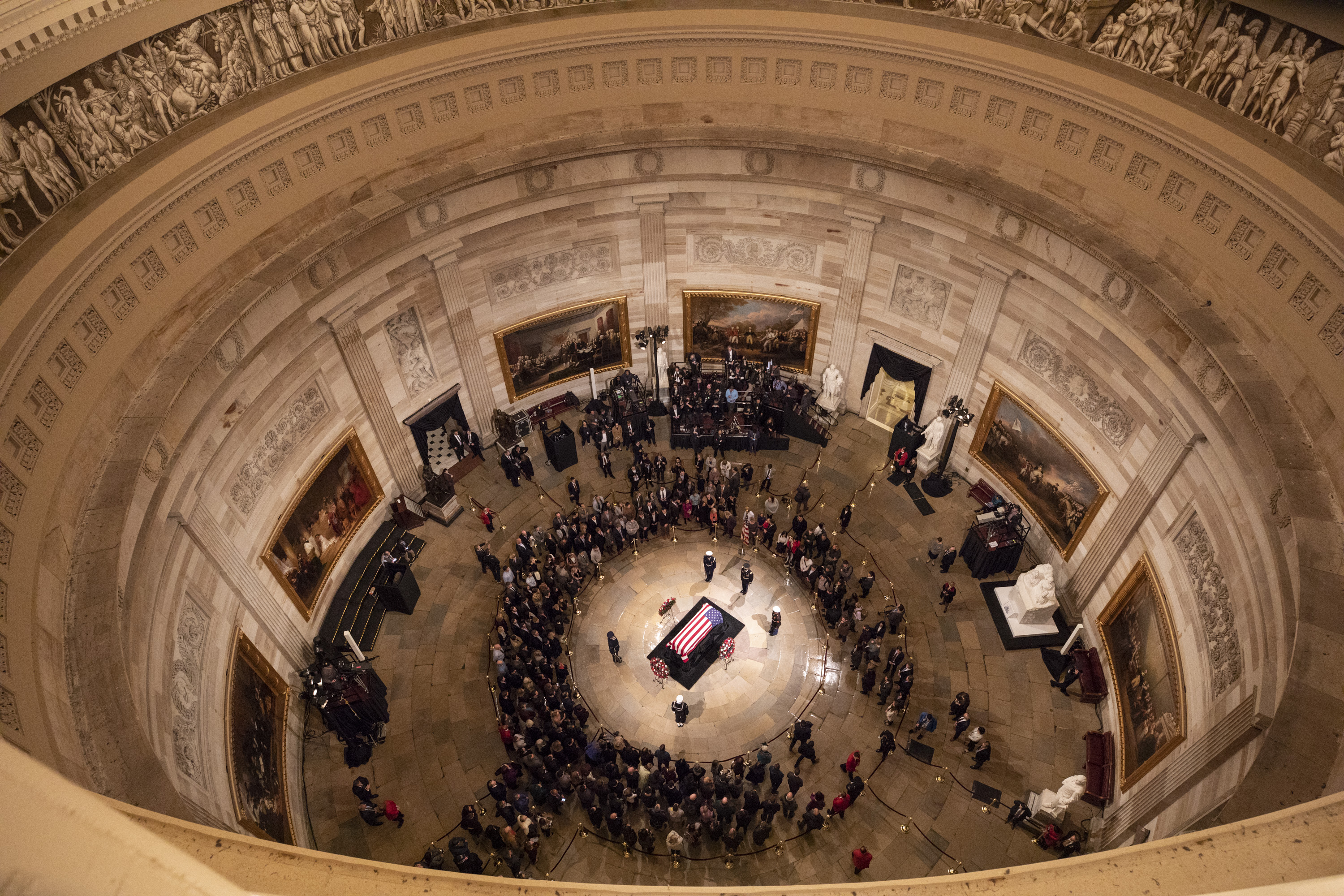 Members of the public pay their respects Monday evening, Dec. 3, 2018, at the casket of former President George H. W. Bush lying in state in the Rotunda of the U.S. Capitol in Washington, D.C. (Official White House Photo by Joyce N. Boghosian)